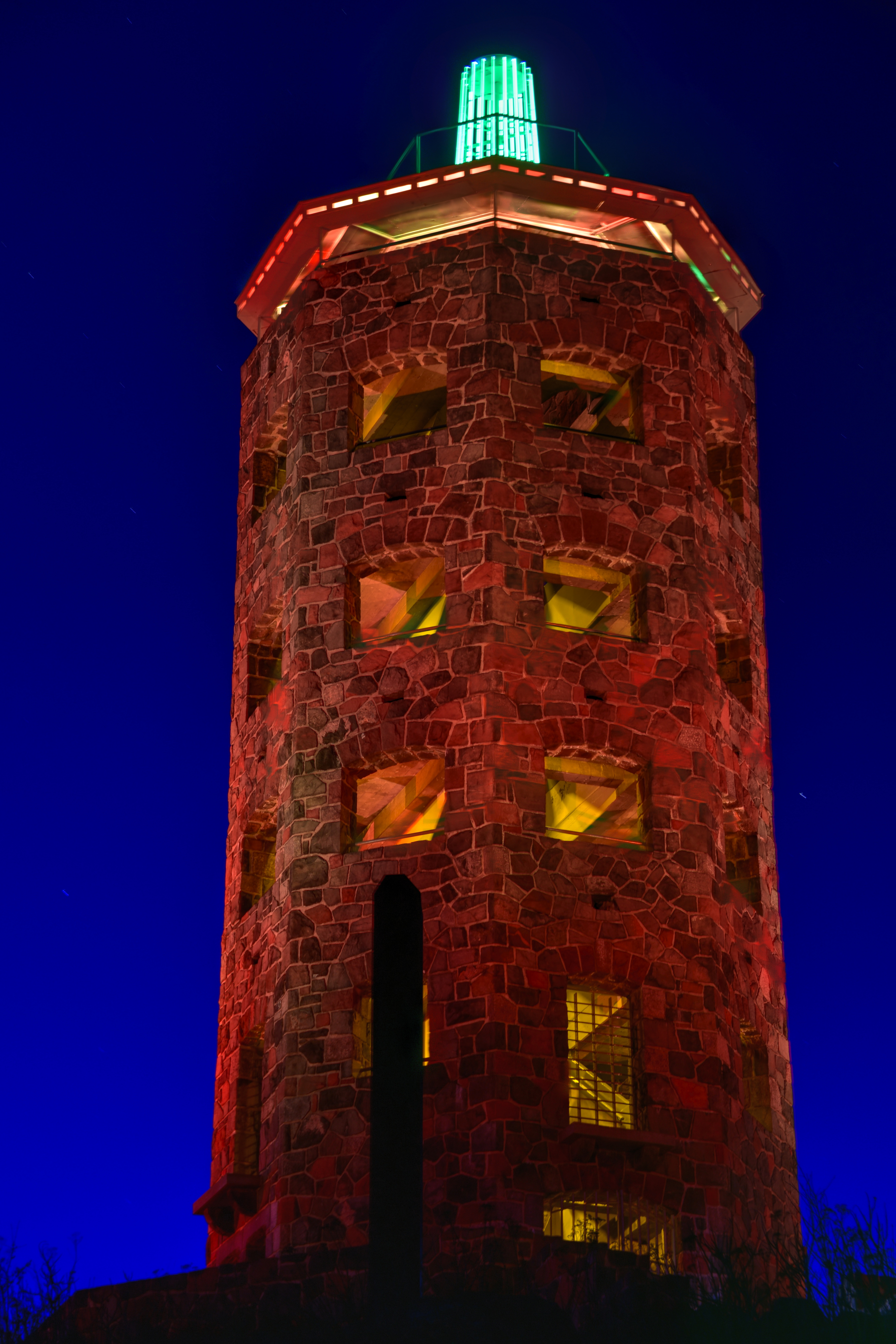 The Enger Observation Tower in Enger Park, Duluth, as it appears at night, footlit by floodlights.